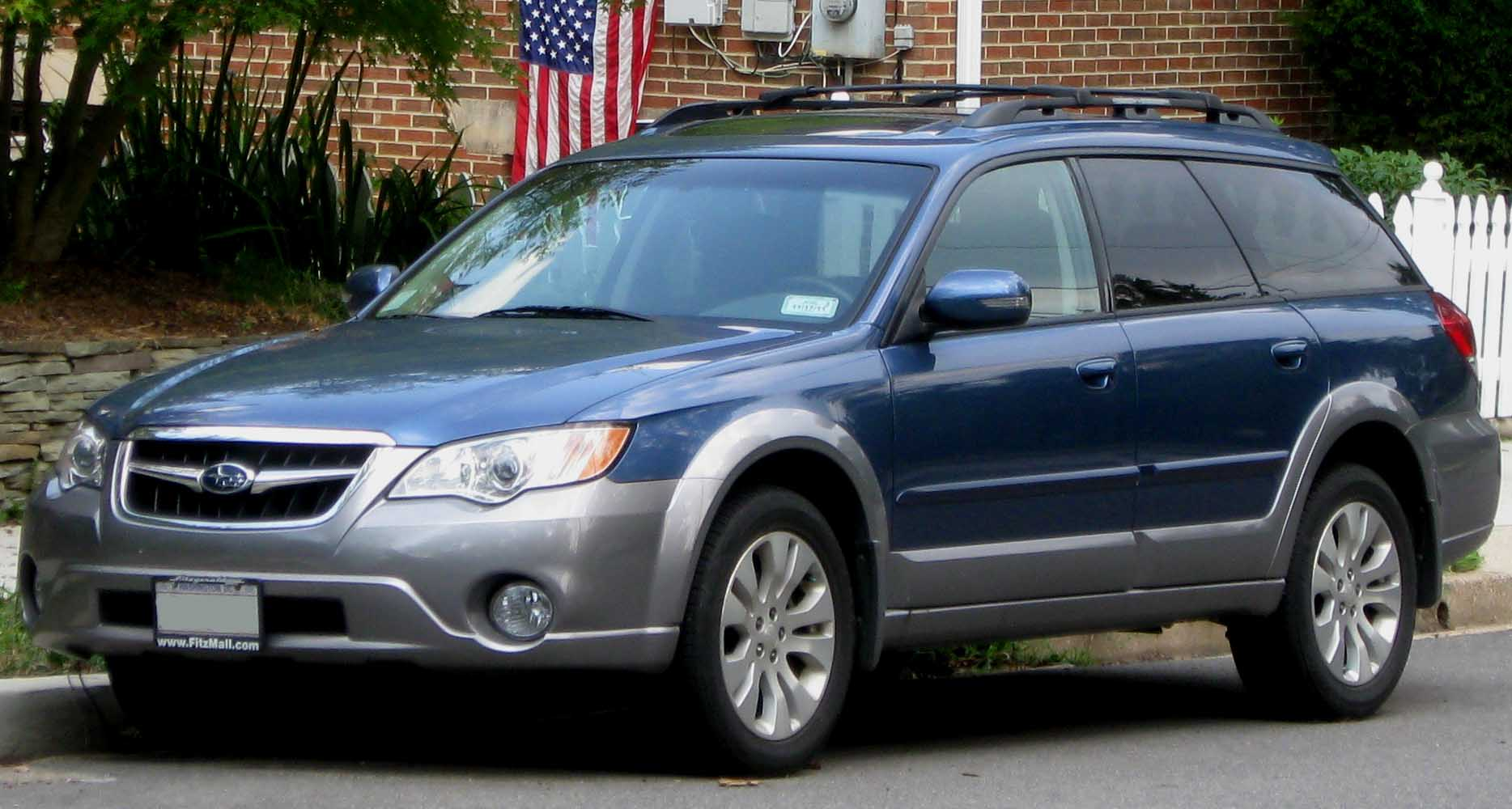 2008-2009 Subaru Outback photographed in Washington, D.C., USA.